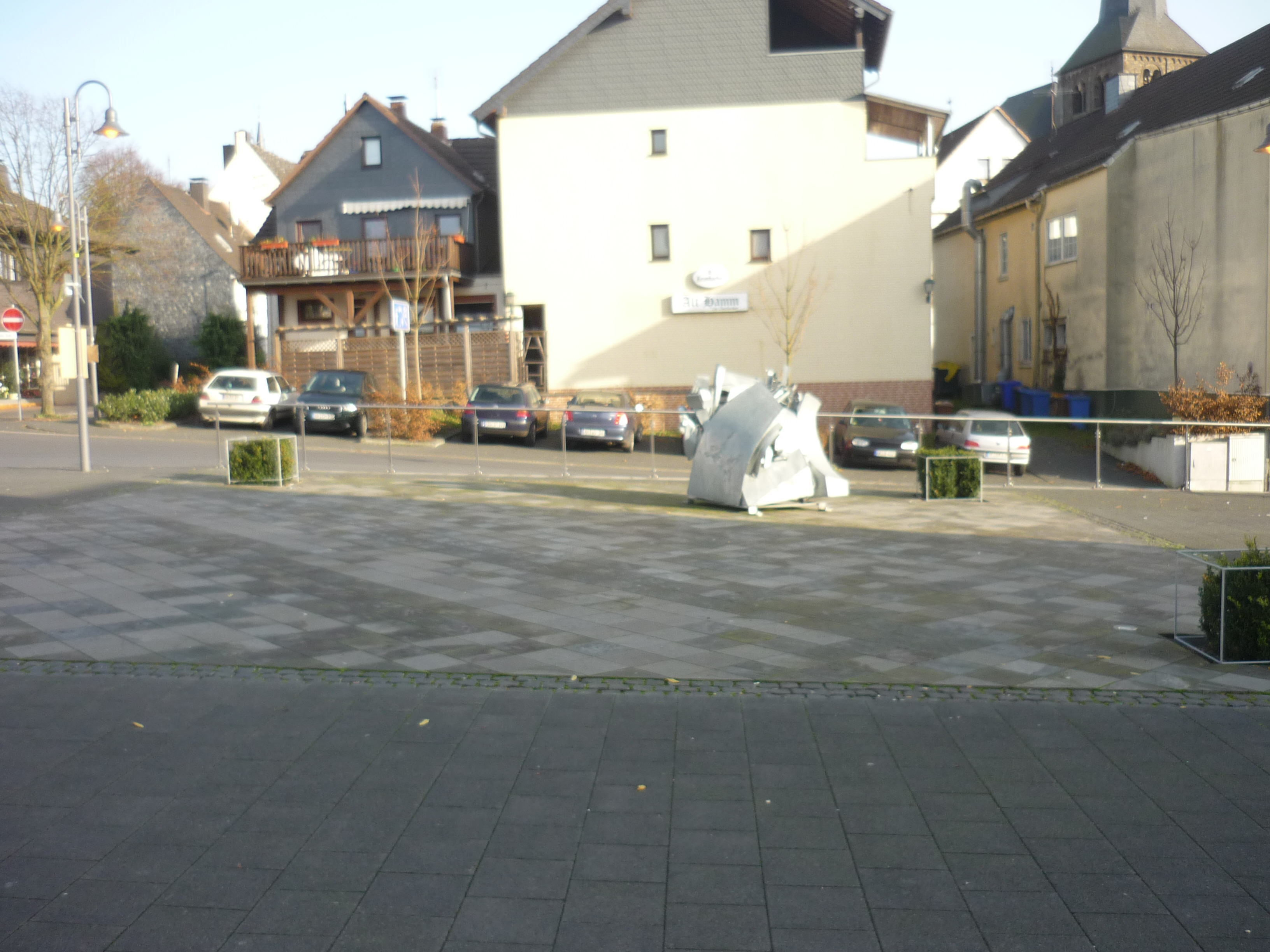 synagogenplatz in hamm Sieg westerwald